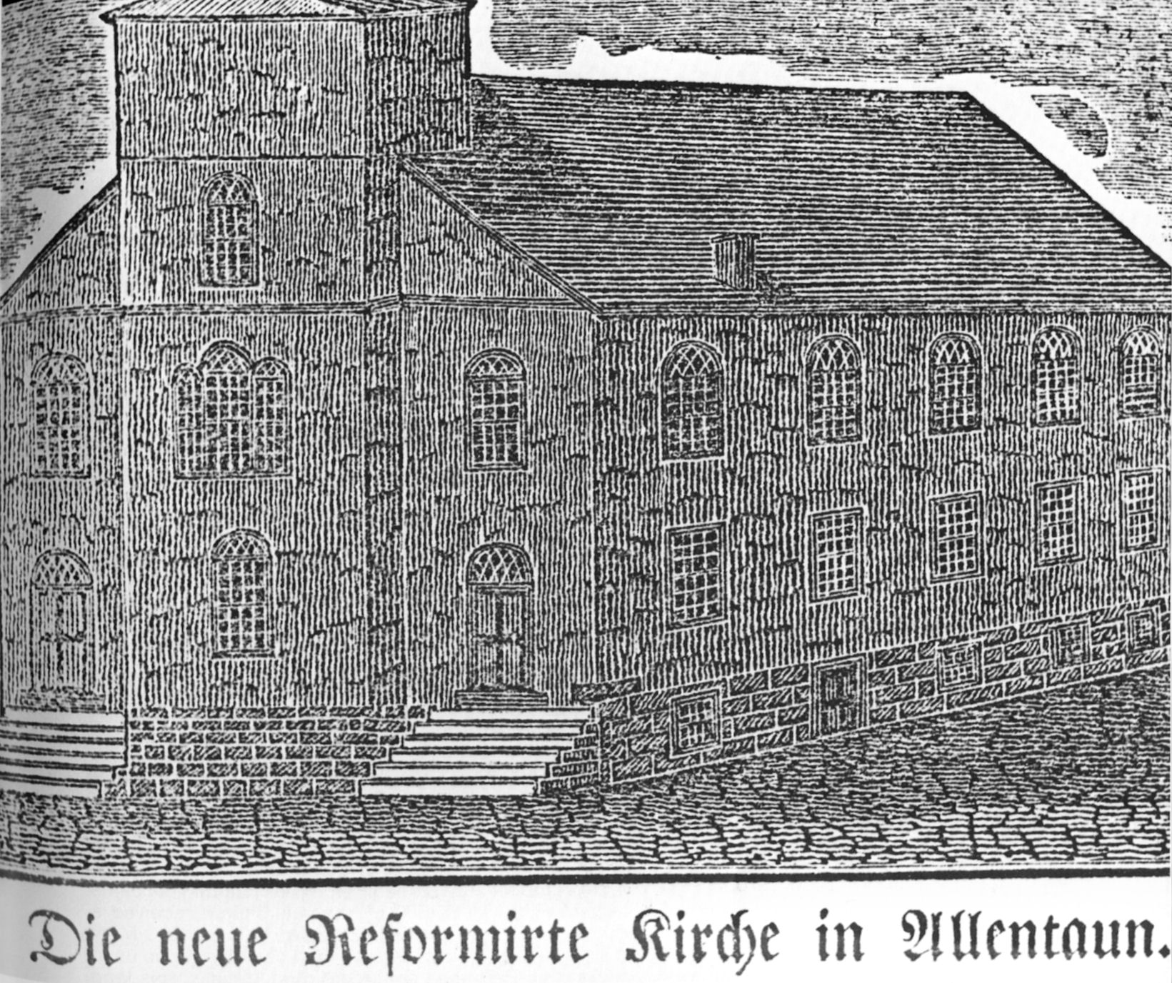 Woodcut of the Second Zion's Reformed United Church of Christ, Allentown Pennsylvania. This illustrated the church that was erected in 1773, and was the hiding place for the Liberty Bell during the winter of 1777-1778. The Church was also the shared home of the German Reformed and German Reformed Church congregations (Later St. Pauls), (Holdings of the Lehigh County Historical Society)